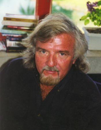 Dr. Abraham D. Lavender, professor of Sociology at Florida International University. Photo by BD2412.